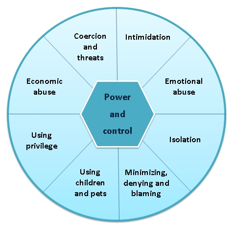 Power and control wheel, Domestic Abuse Intervention Project (